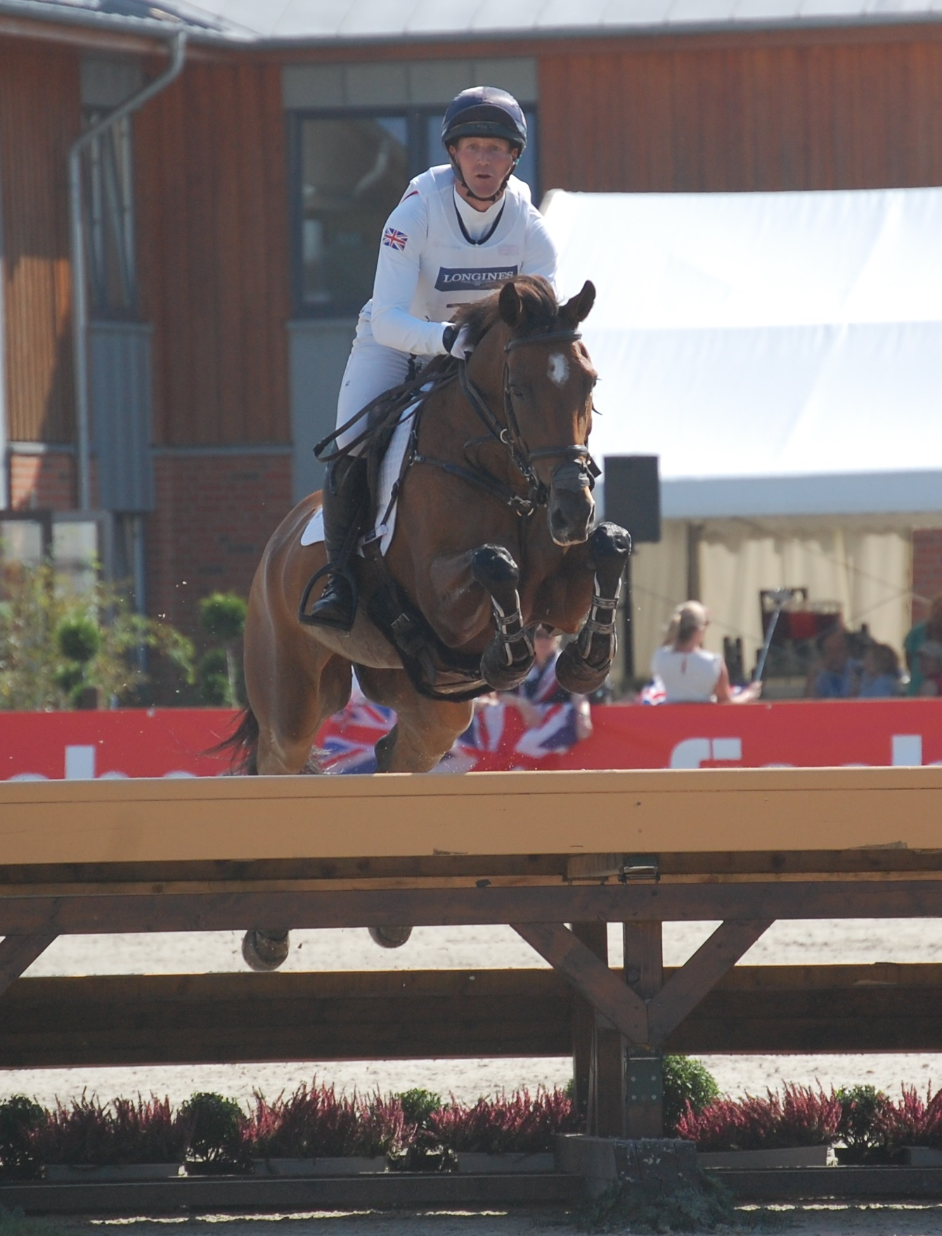 British rider Oliver Townend and Cooley Master Class, fence 7 "The Manzke table" (cross-country phase), 2019 European Eventing Championship, Luhmühlen